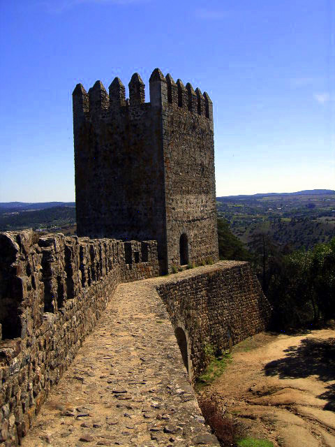 Part of the fortification of castle Montemor-o-Novo, Alentejo region, Portugal